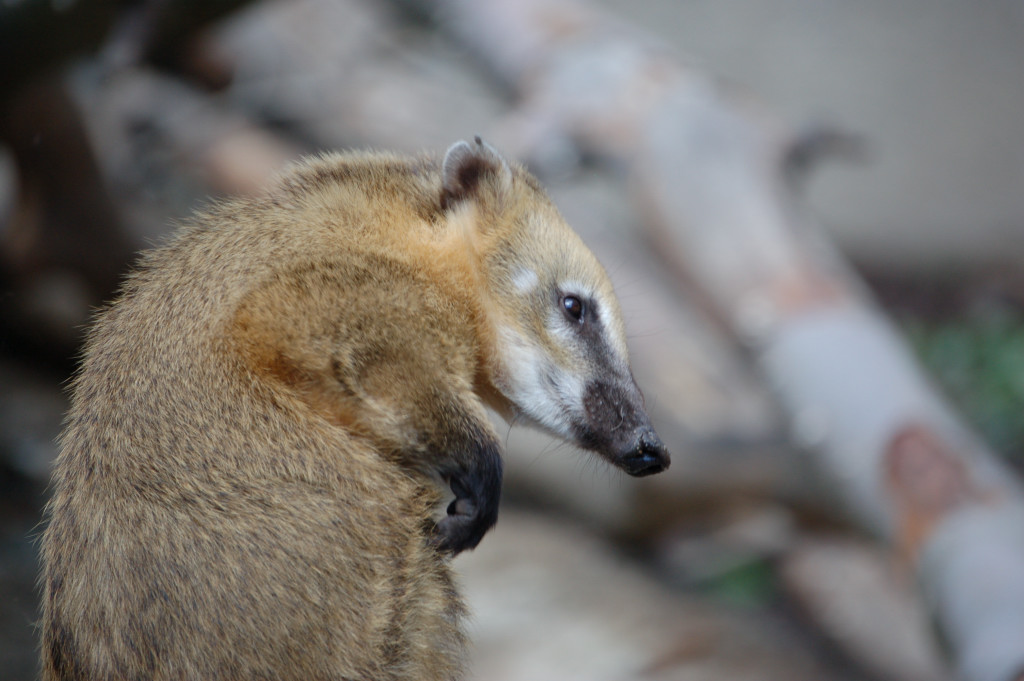 Author: Paul Tucek free picture of coati